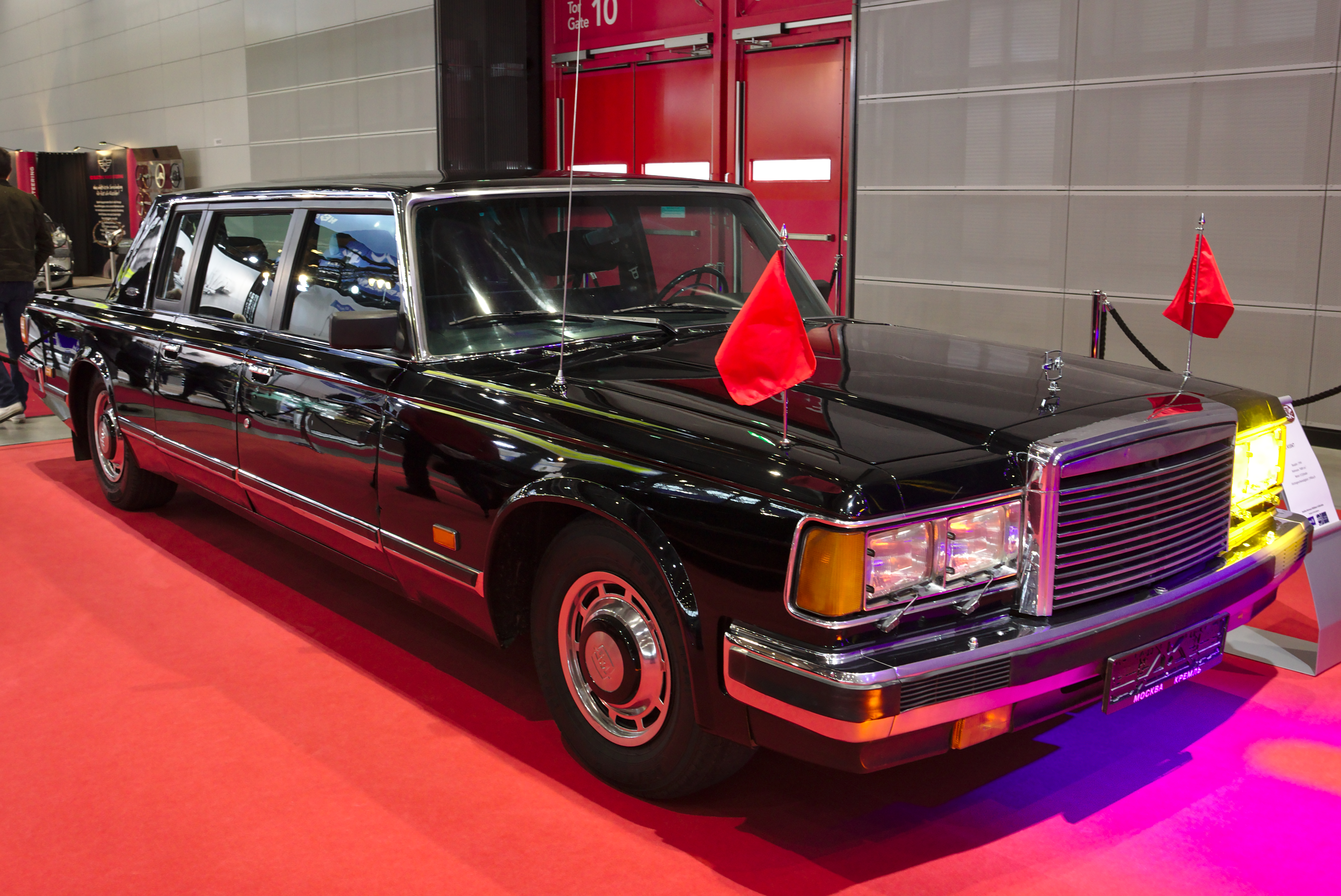 ZIL 41047 at Retro Classics 2018